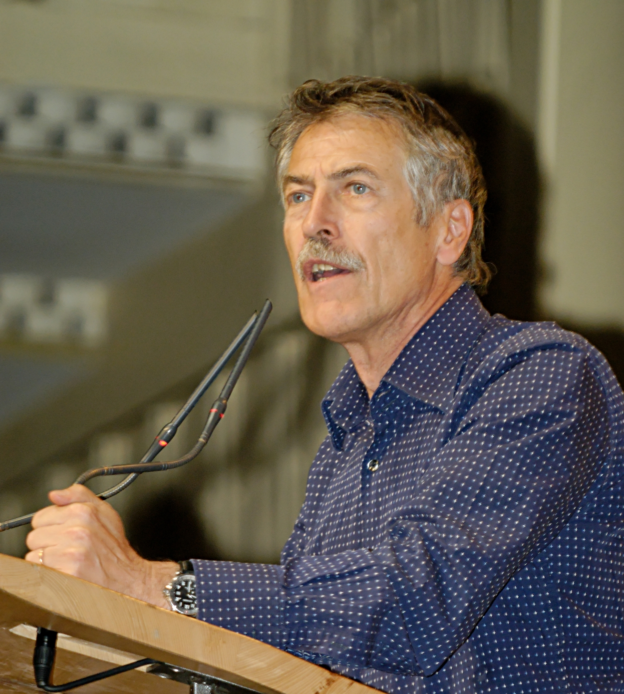 Alain Lipietz at a meeting held on Apr. 5, 2007 by the French Greens Party at the Palais de la Mutualité in Paris.